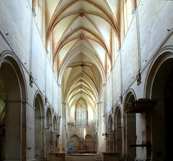 Quadripartite cross-ribbed vaults in the main nave of the former monastery in Lubiąż.